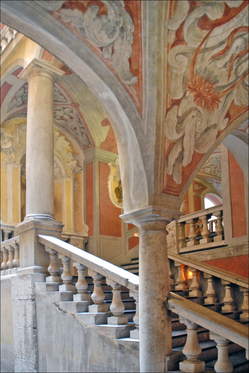 The staircase of the palais Lascaris in Nice, France.